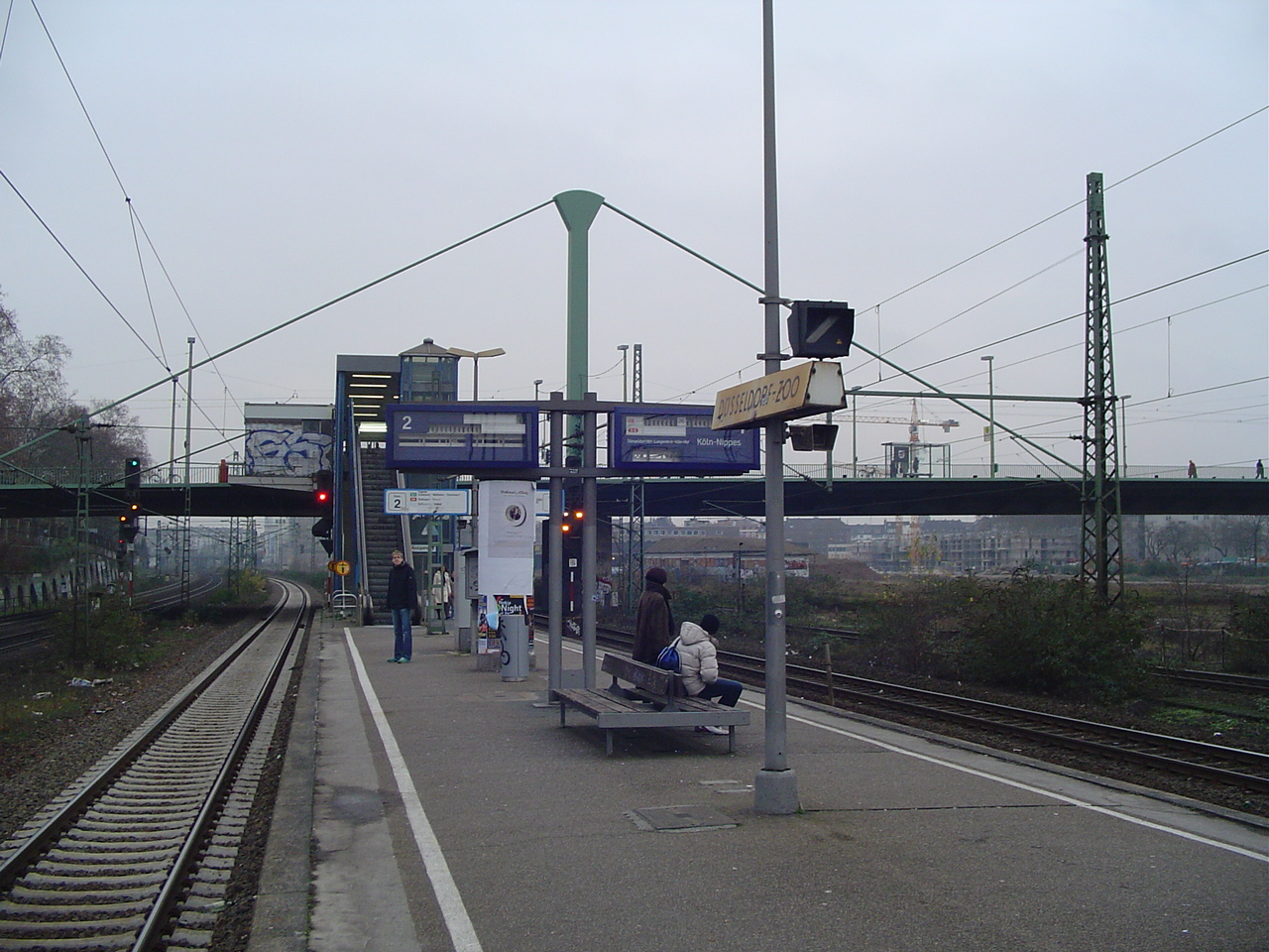 Düsseldorf Zoo S-Bahn stop, Germany